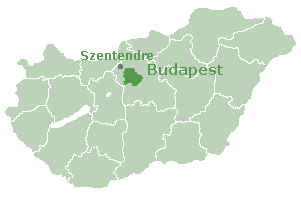 Location of Szentendre in Hungary